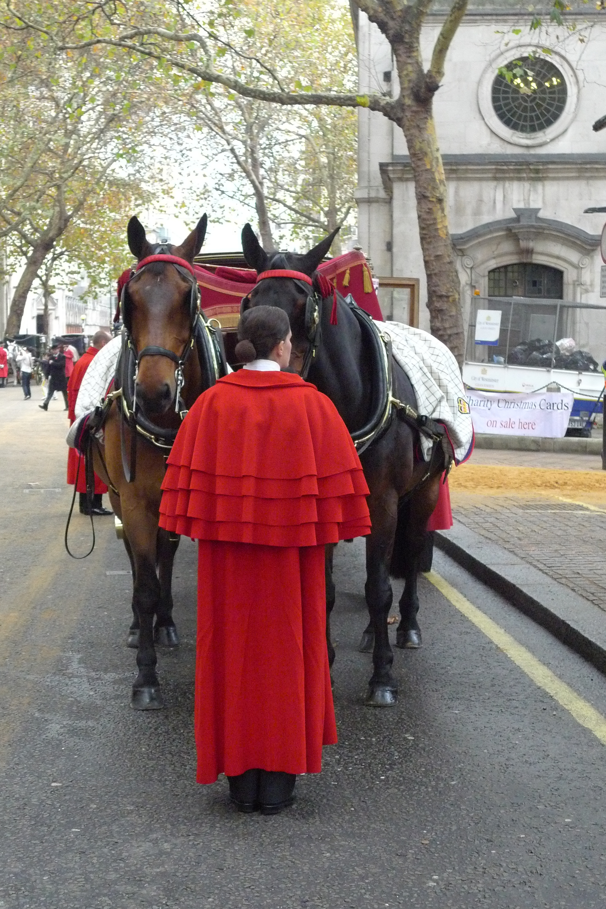 photo by me, Rodolph de Salis, of a coach(wo)man, probably from the Royal Mews, waiting for the second half, the resumption, of the Lord Mayor's Procession outside the Royal Courts of Justice, November 2011.User:RodolphRodolph (User talk:Rodolphtalk) 20:44, 21 November 2011 (UTC)